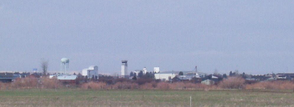 A Skyline photo with my little camera. Eventually I'll get a better picture on clearer day where we can see the Tobacco Root Mountains in the background. Picture taken just off Spain Bridge Road on 4/19/2008.